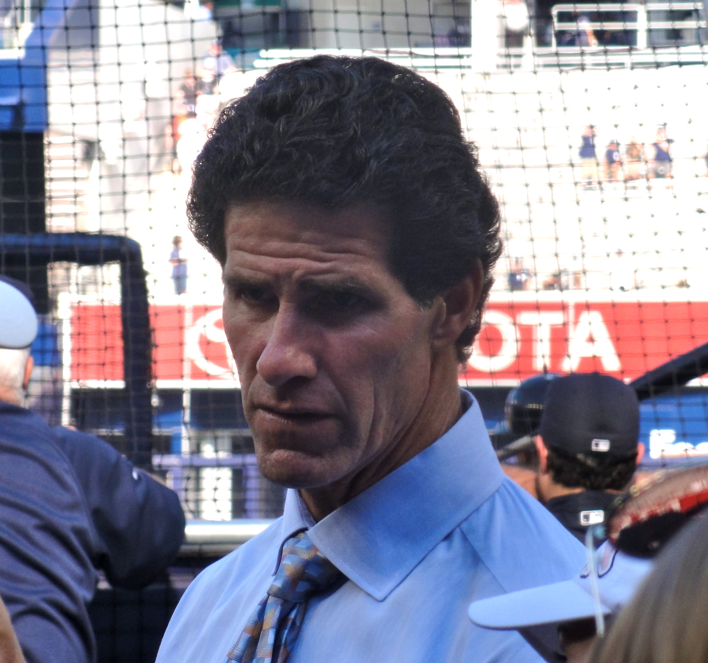 Former Yankees player and current broadcaster Paul O'Neill at Yankee Stadium, 2011.